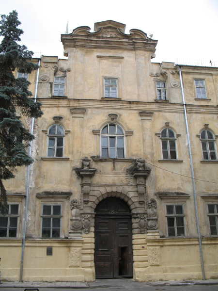 Iesuit monastery, Lviv. Collegium